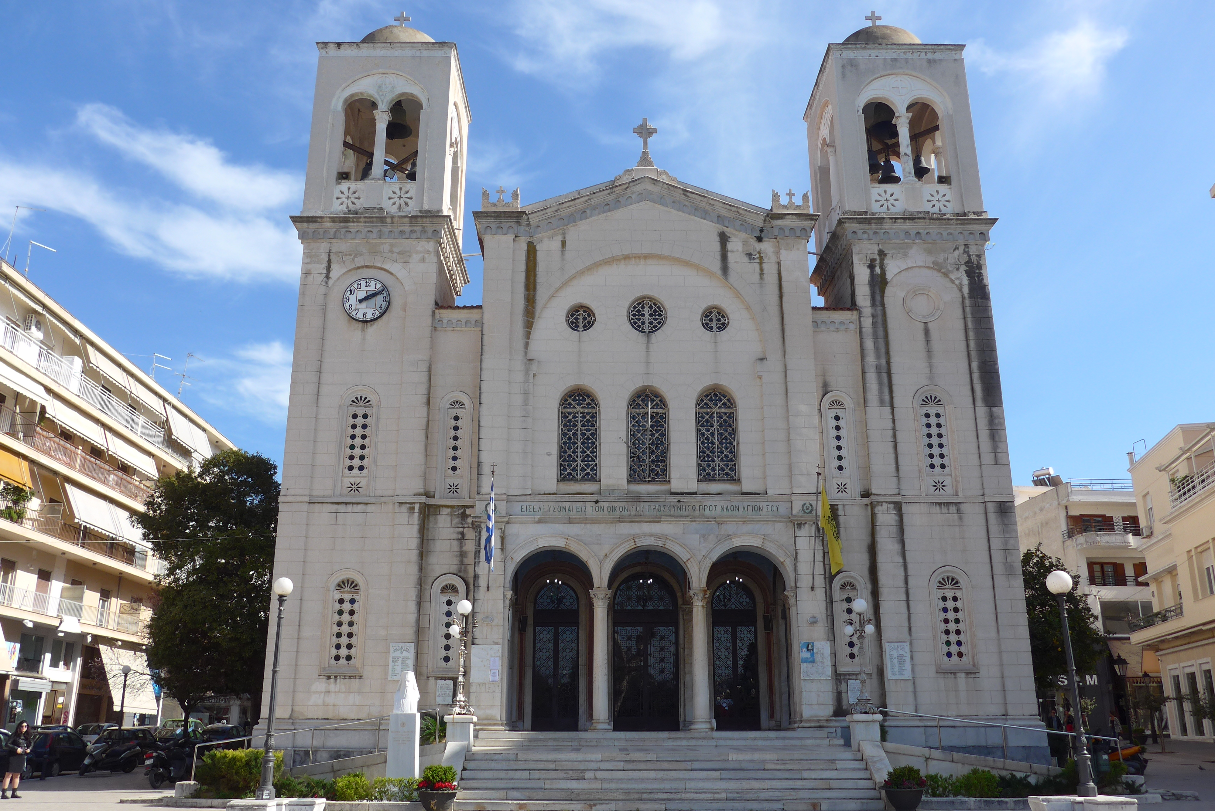 A church in Chalkida